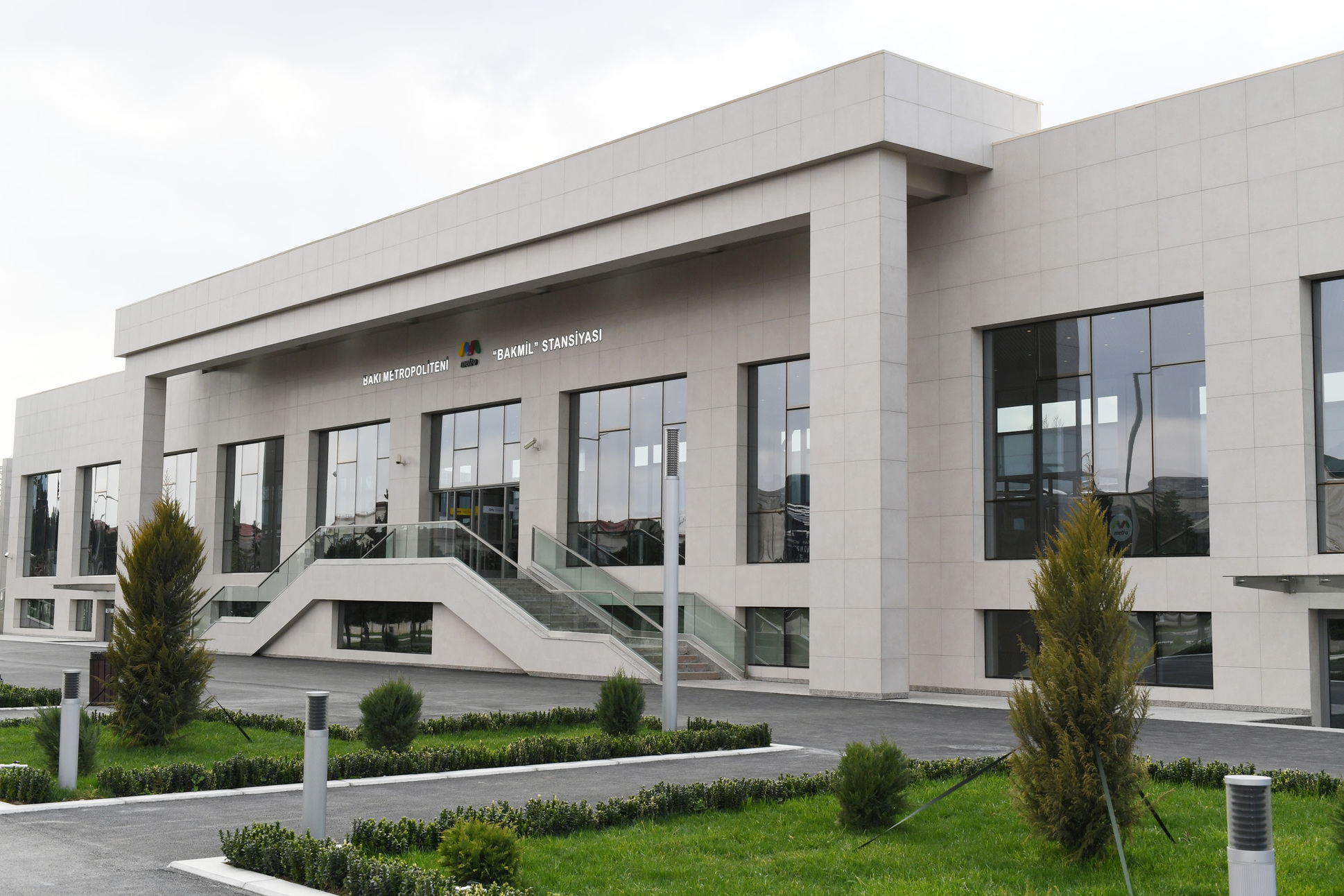 Bakmil metro station, Baku, Azerbaijan